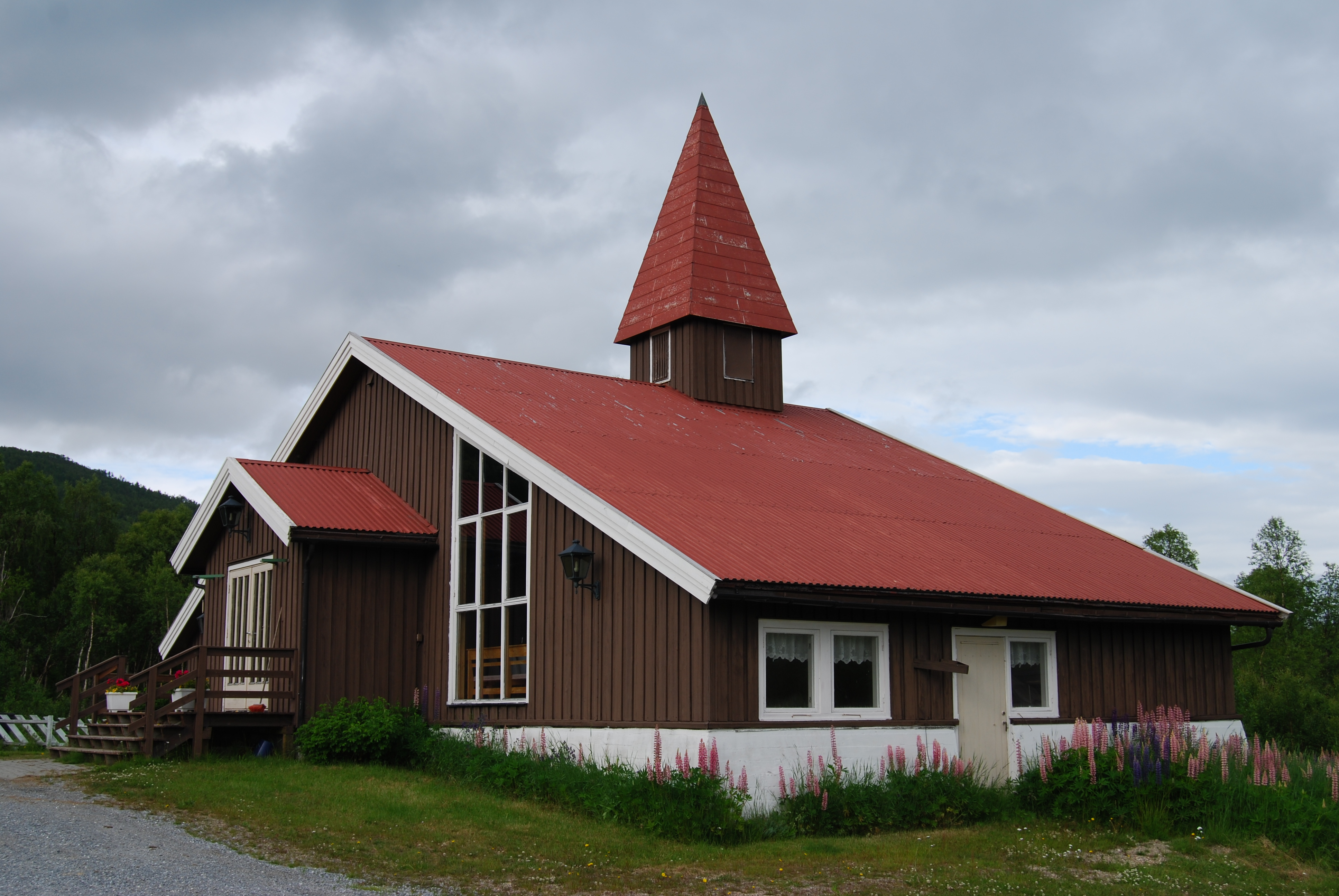 Svanelvmo chapel on Senja, Norway.